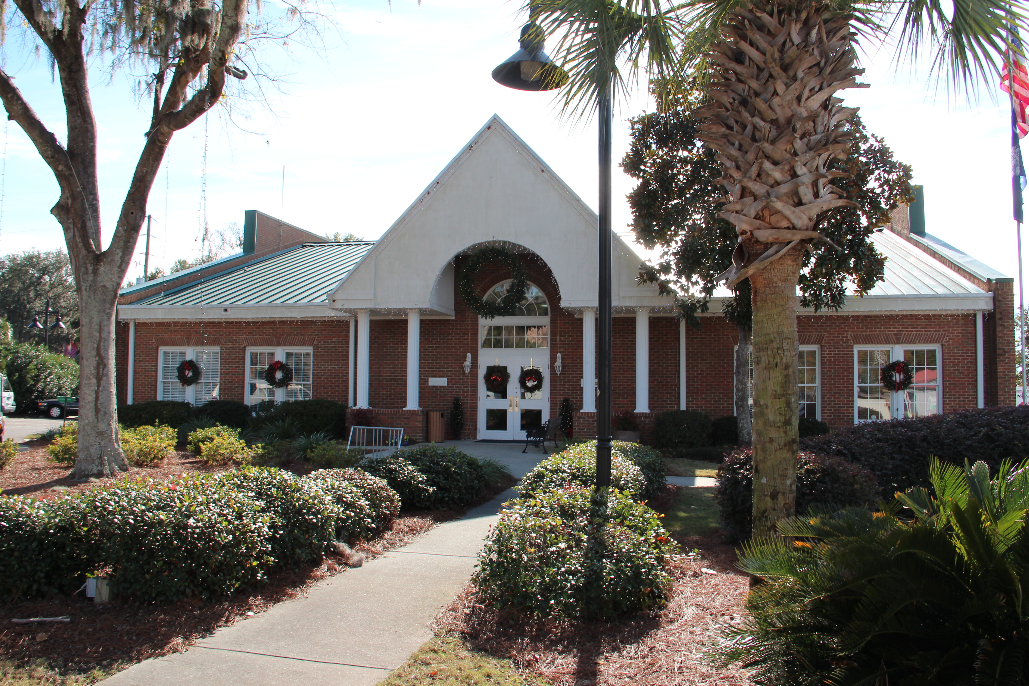 Port Royal, South Carolina City Government Offices